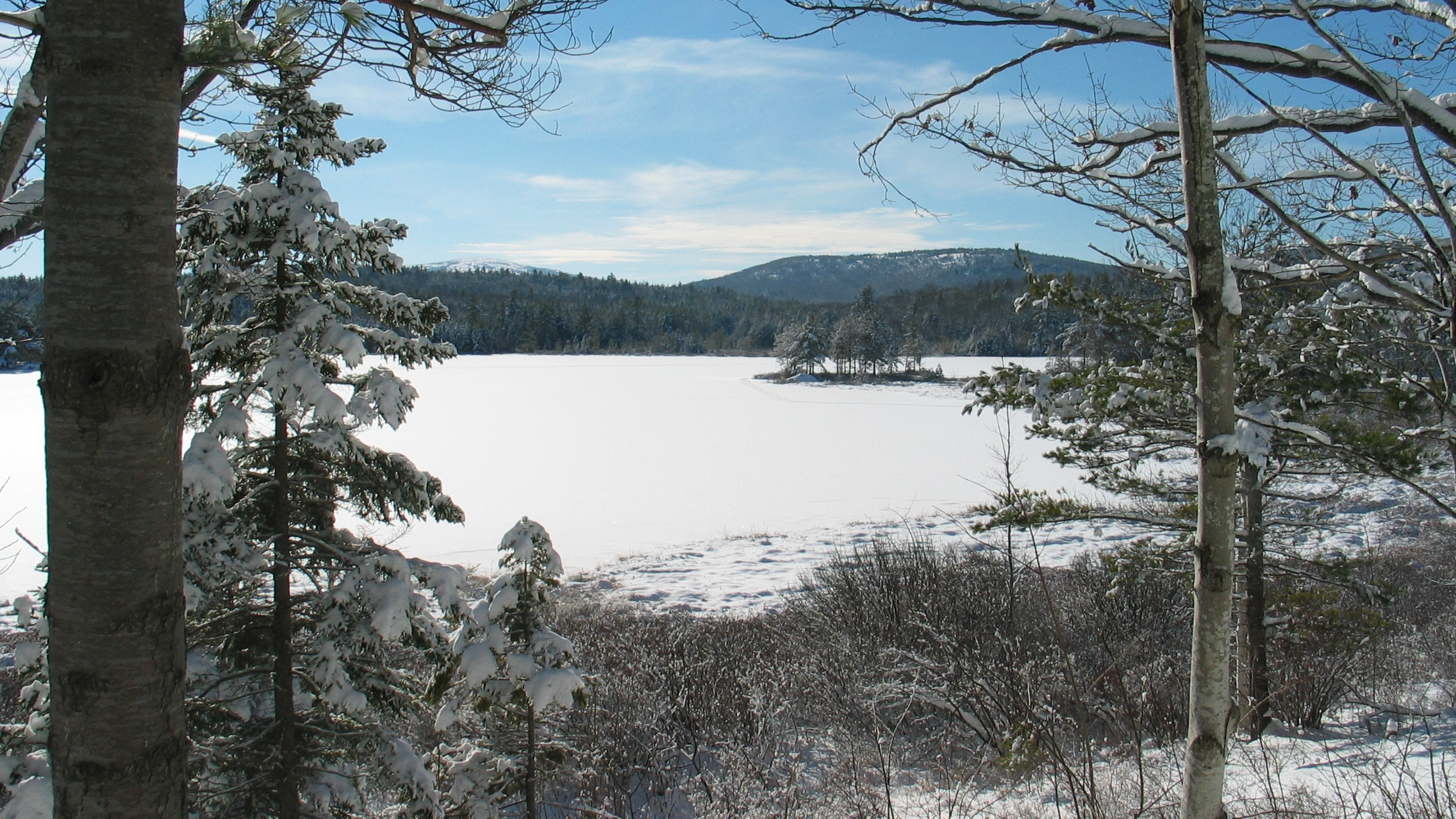 A frozen lake and snow covered trees in Acadia National Park, Maine, United States